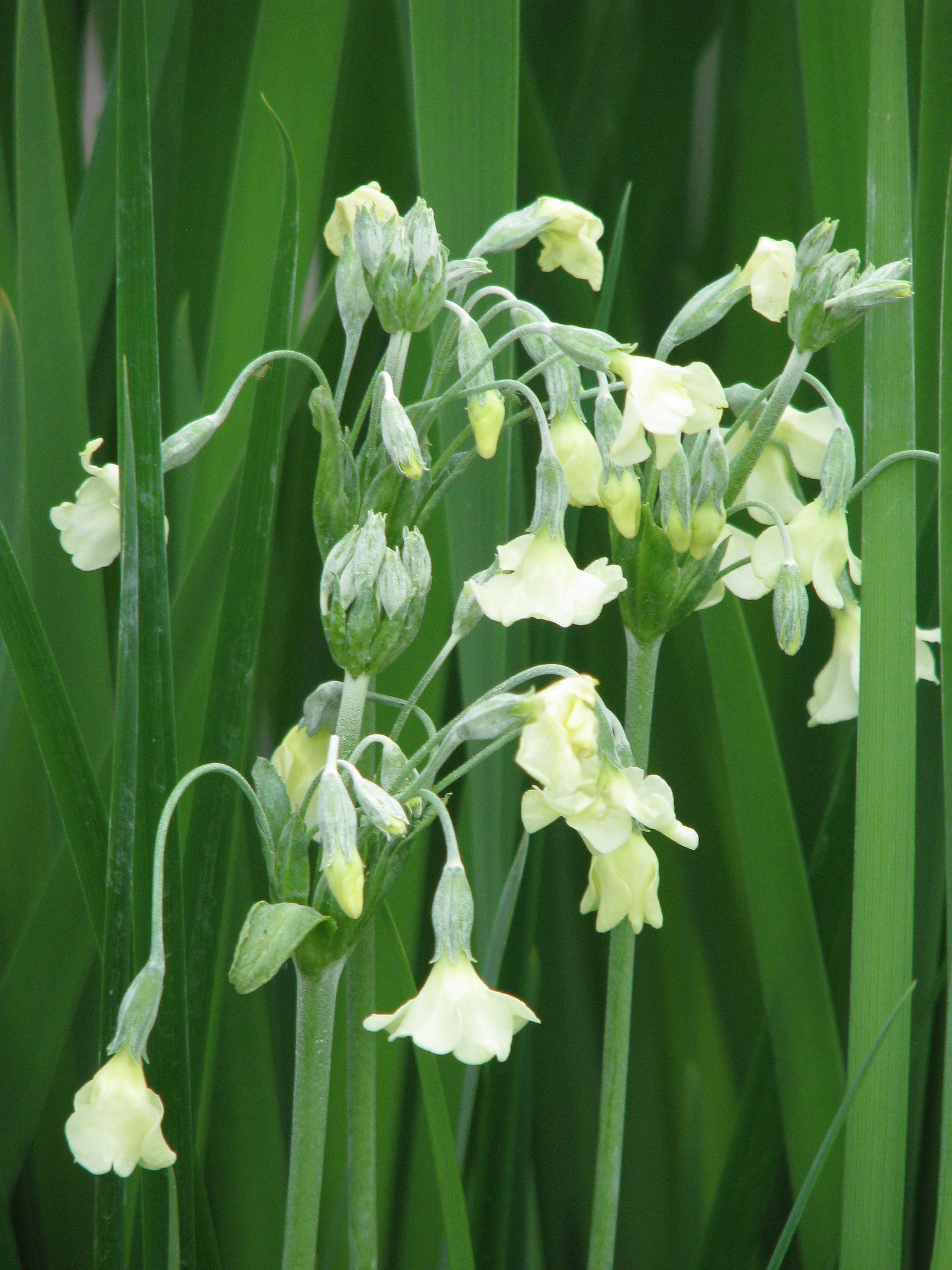 Primula alpicola